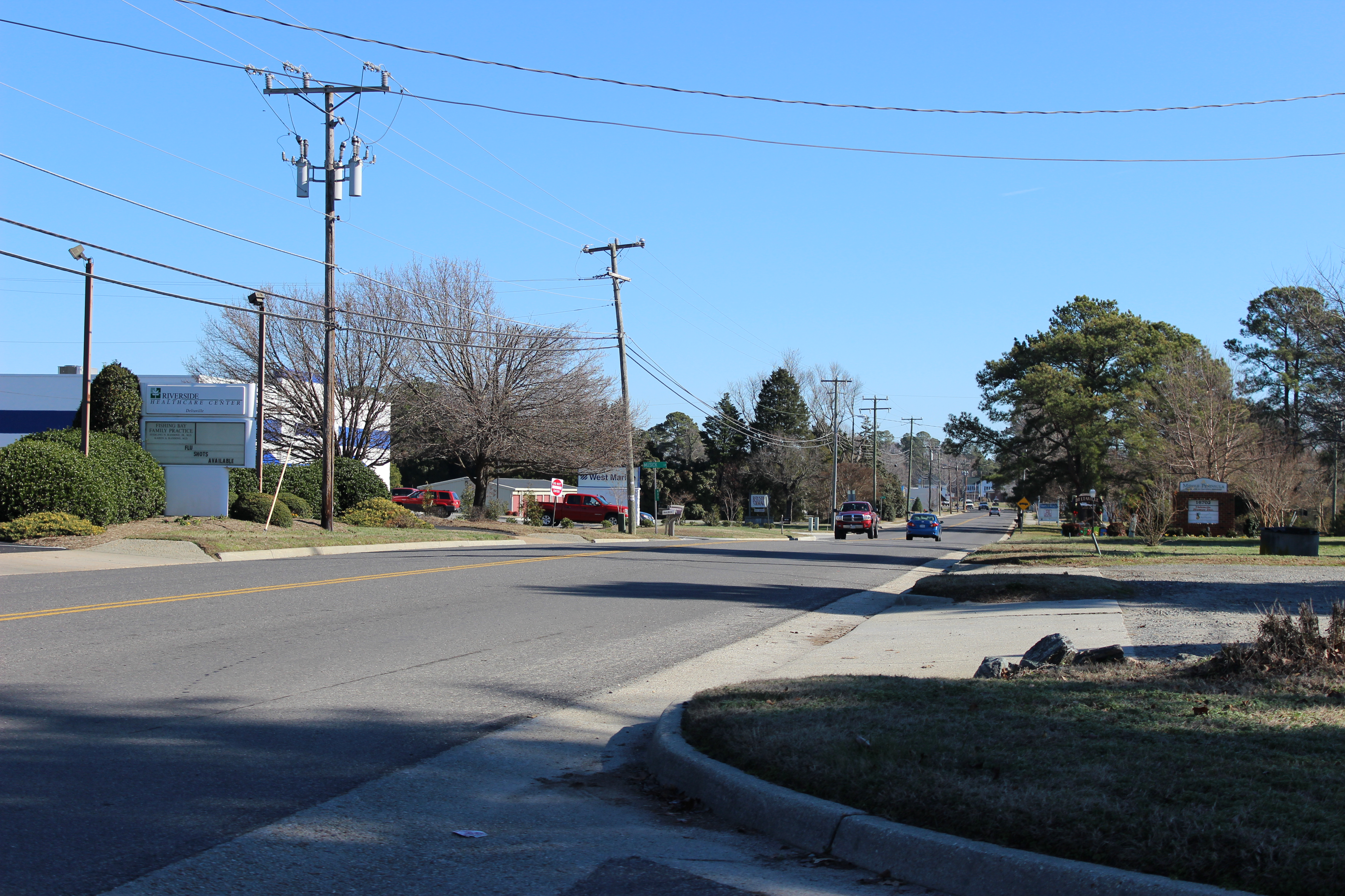 General Puller Highway, Deltaville, VA.